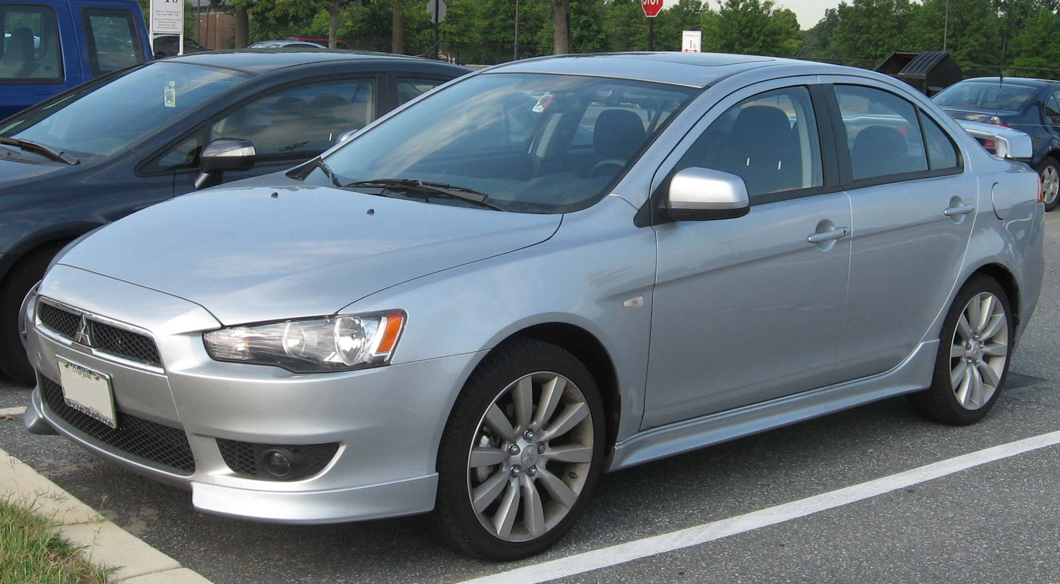 2008 Mitsubishi Lancer photographed in College Park, Maryland, USA.